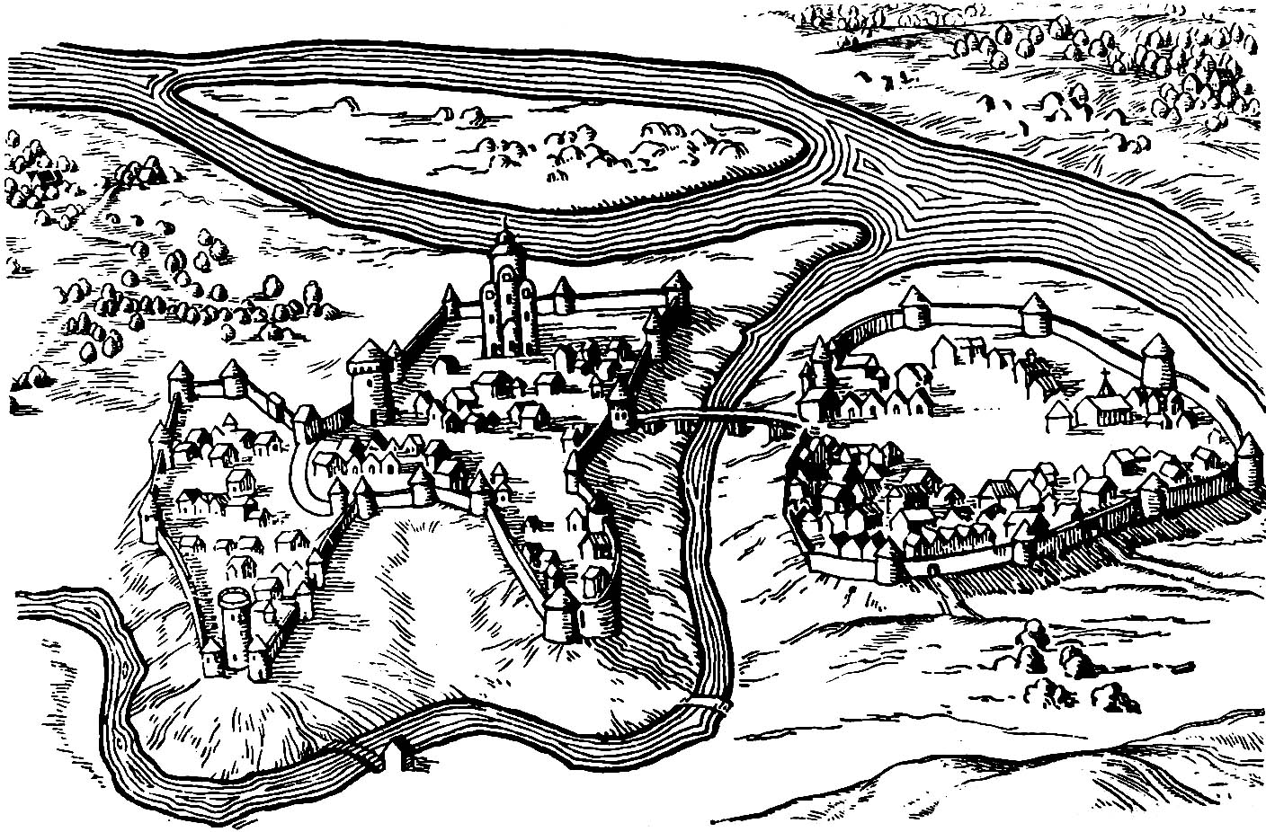 Polatsk, Belarus